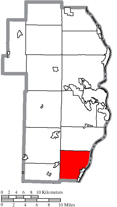 Map of the municipal and township boundaries of Jefferson County, Ohio, United States, as of the 2000 census, with the location of Warren Township highlighted. Township borders are shown only in unincorporated areas in order to differentiate incorporated and unincorporated areas more clearly.